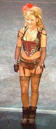 Kerry Ellis in costume as Meat in the musical We Will Rock You.